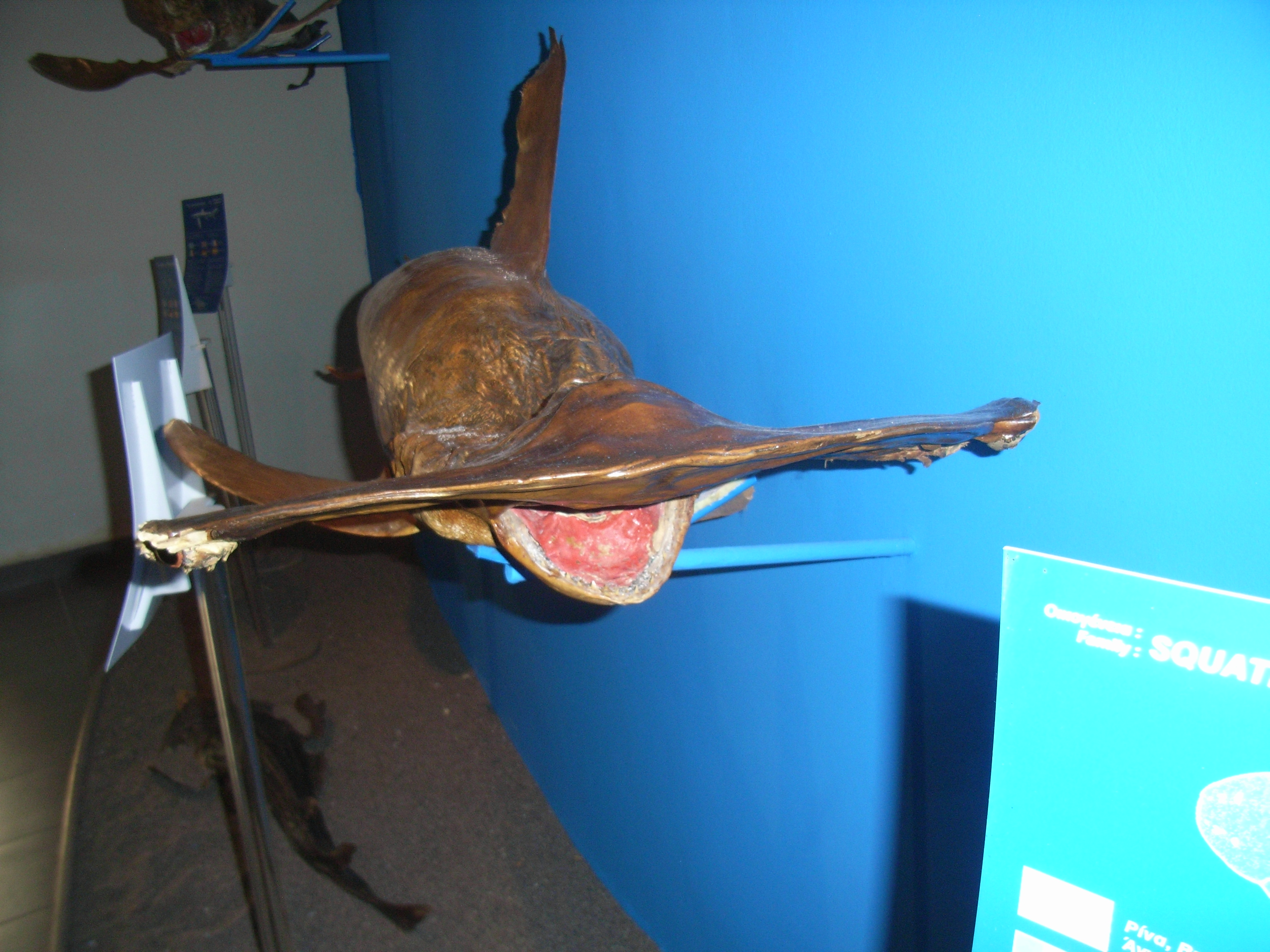 Museum of the Rhodes Aquarium Sphyrna zygaena